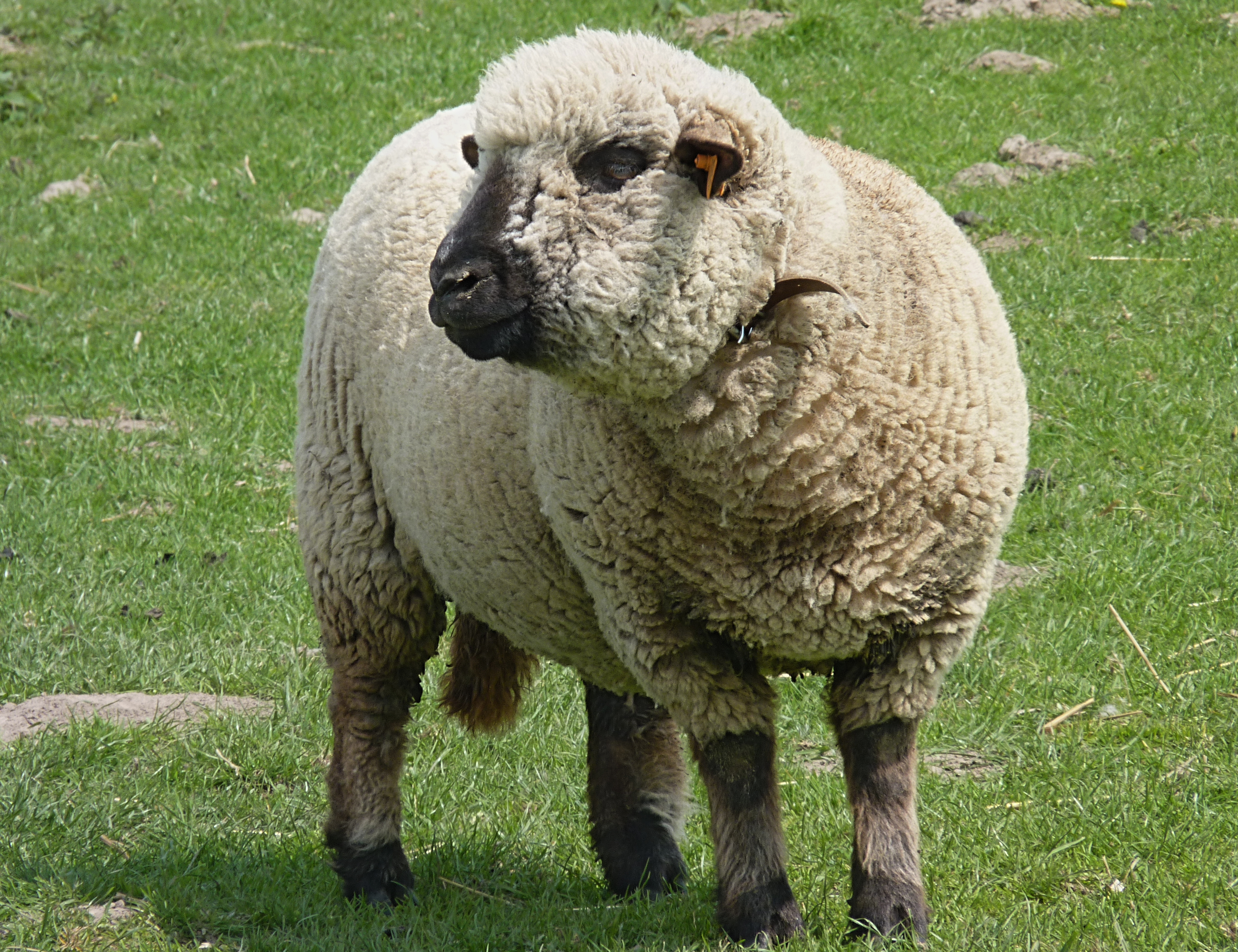 Hampshire Down sheep in Mouscron, Belgium.